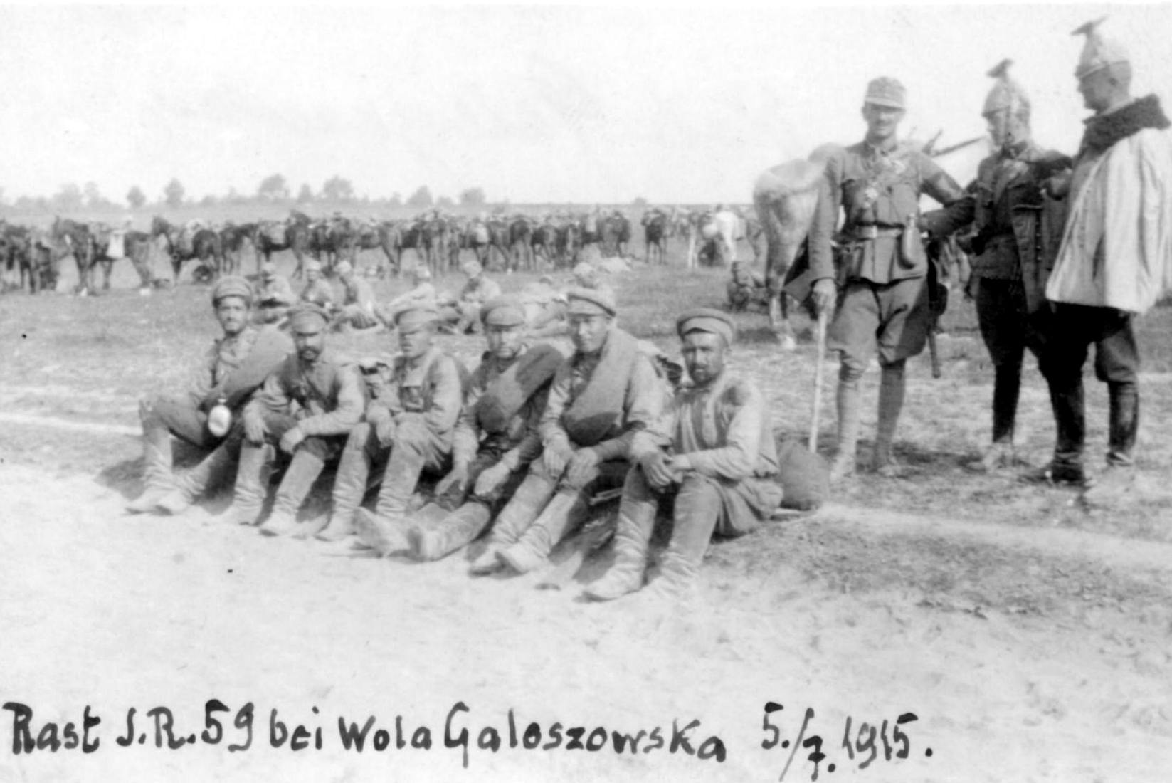 Salzburgisch-Oberösterreichisches Infanterie-Regiment „Erzherzog Rainer“ Nr. 59